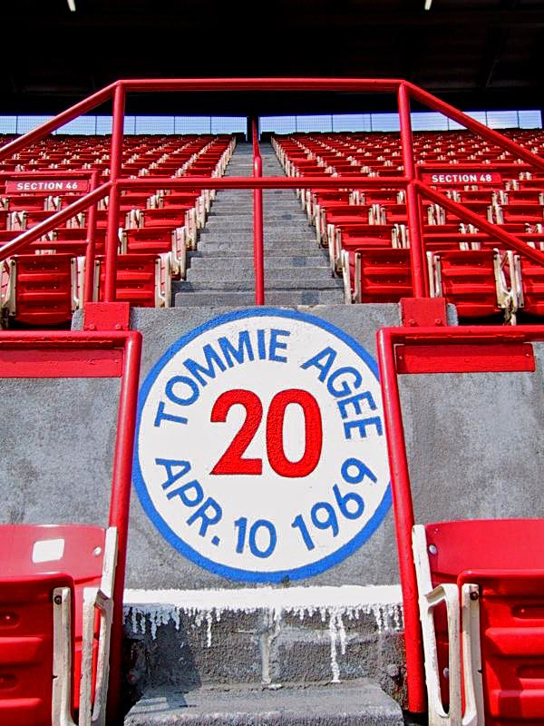 The spot in Shea Stadium's Upper Deck commemorating the longest home run hit at Shea Stadium